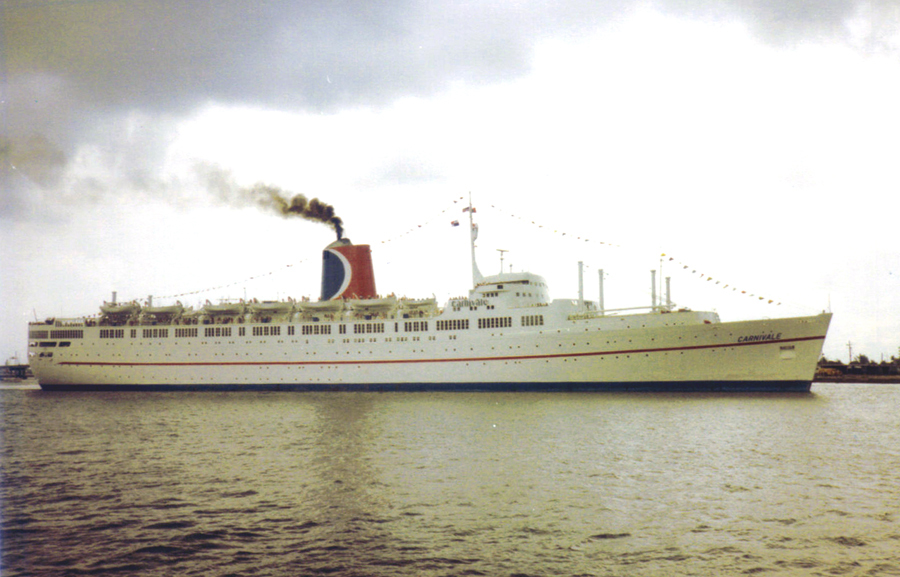 The cruise ship Carnivale in Miami's harbor on June 15, 1984.